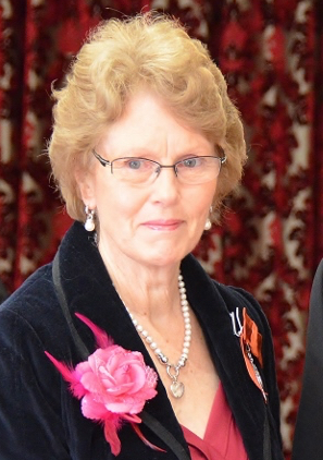 Lesley Elliott, after her investiture as MNZM, for services to the prevention of domestic violence, at Government House, Wellington, on 11 September 2015.